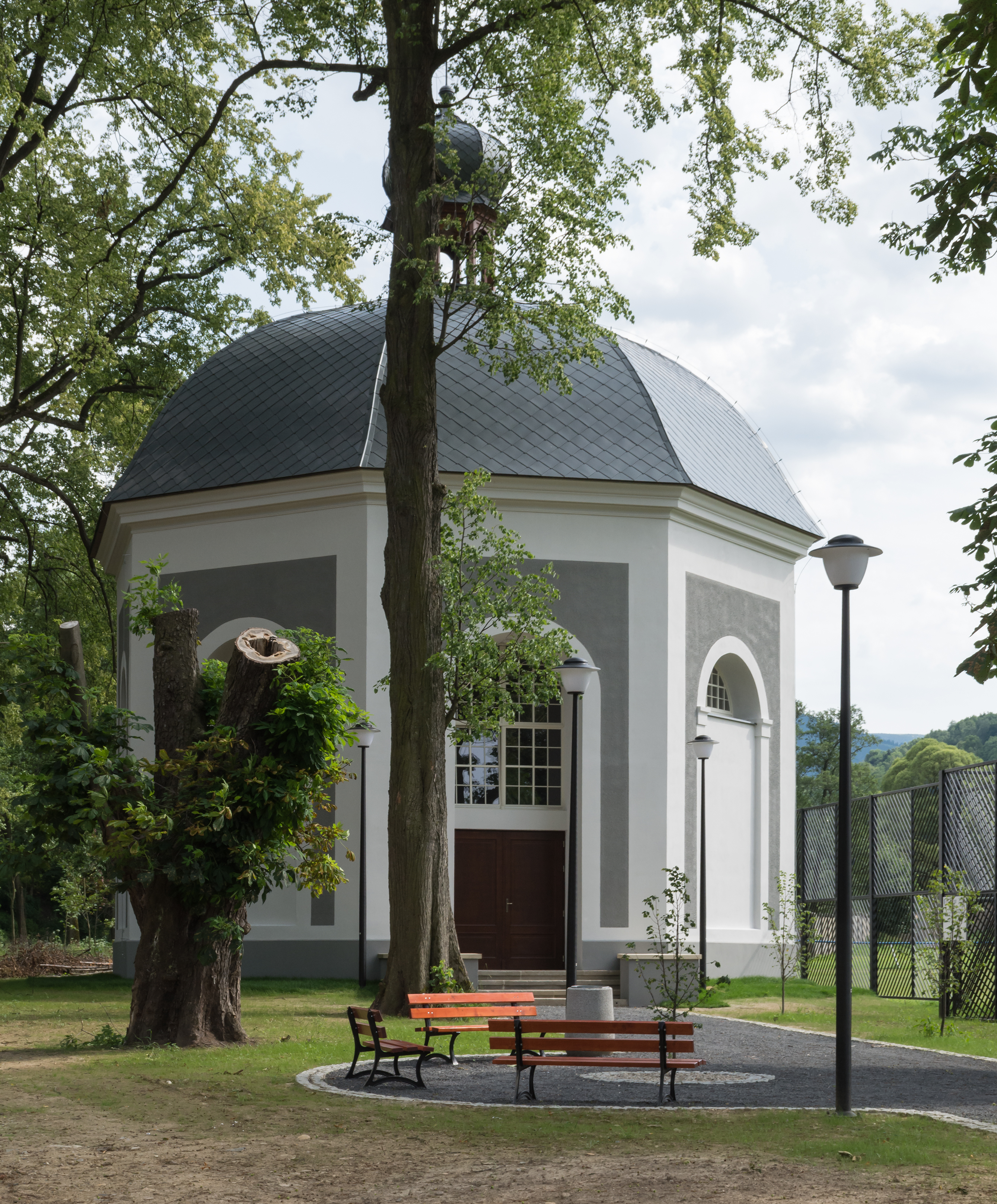 Saint Onuphrius chapel in Stronie Śląskie